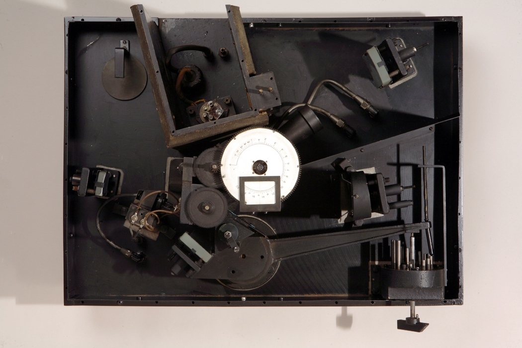 Beckman Ir-1 Spectrophotometer, ca. 1941. On loan from Beckman-Coulter Inc. to the Chemical Heritage Foundation. Arnold Orville Beckman and Beckman Instruments produced the Beckman IR-1 in 1942 specifically for the Rubber Reserve. By 1945 approximately 75 of the IR-1s had been made—entirely for use by the U.S. synthetic-rubber effort. No one was allowed to publish or discuss anything related to the new machines until the war was over. Downloaded with permission from the Chemical Heritage Foundation, as part of the Wikipedian in Residence initiative.